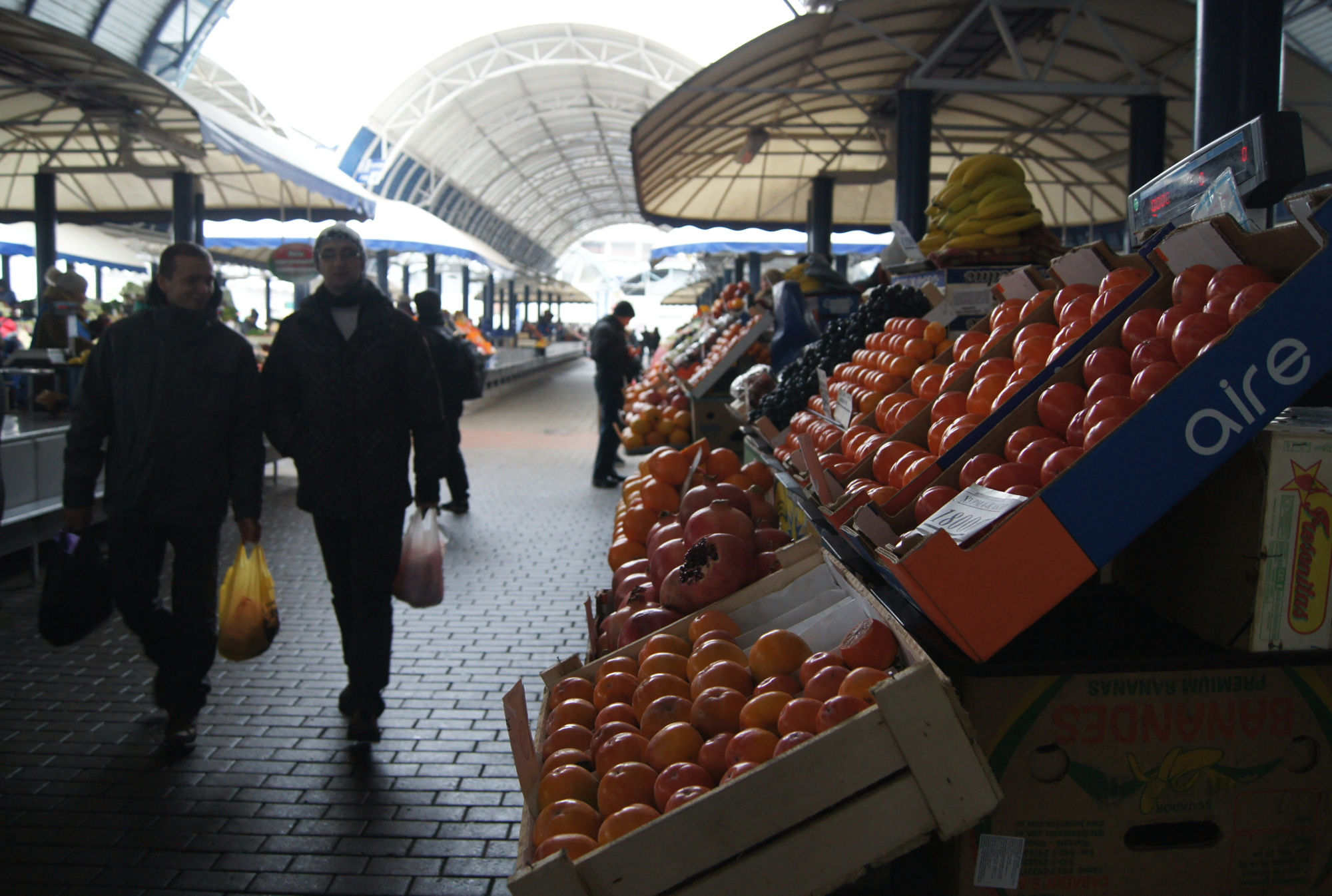 Kamarouka 2